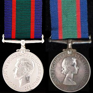 The second King George VI and first Queen Elizabeth II versions of the Royal Naval Volunteer Reserve Long Service and Good Conduct Medal